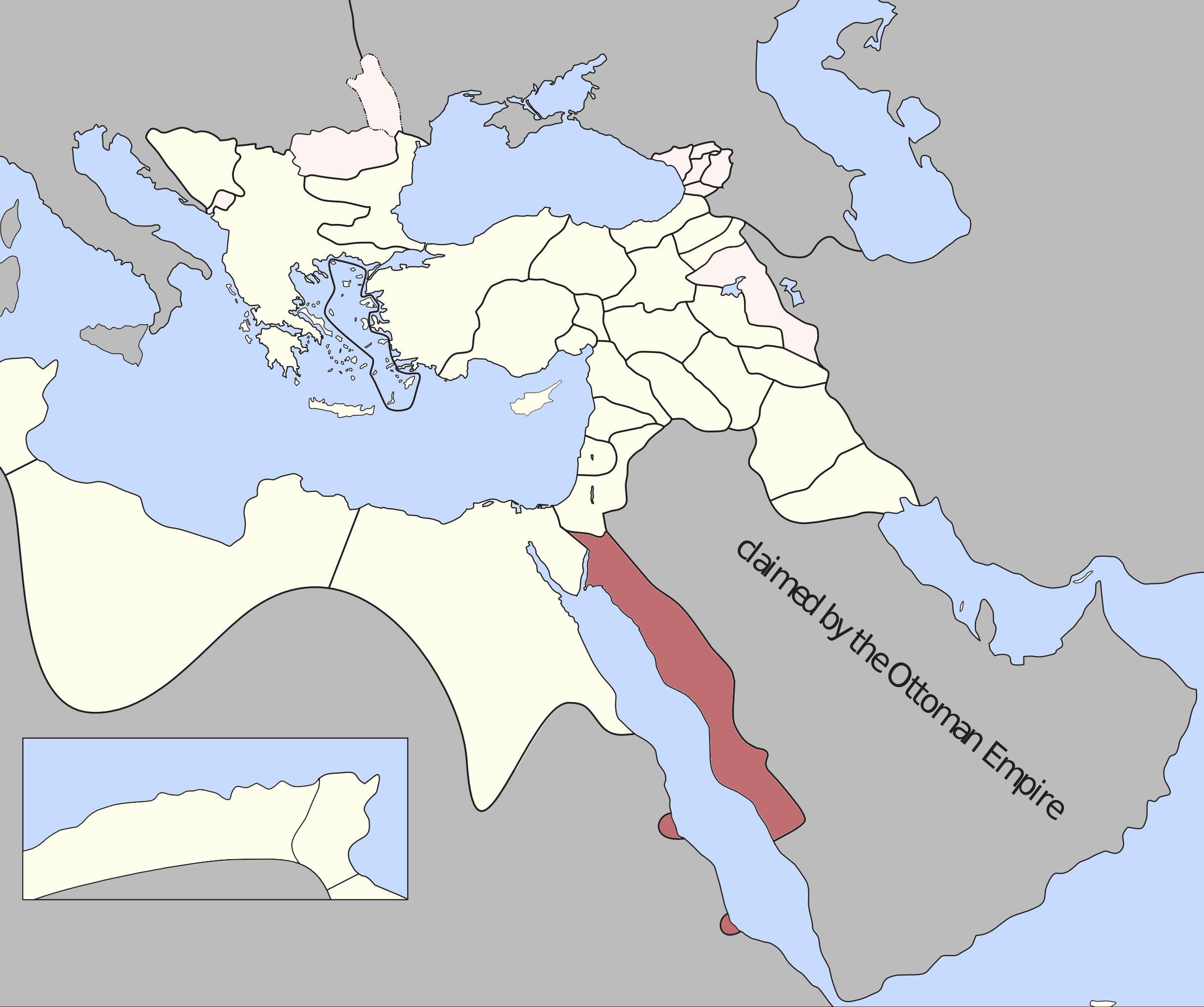 Jeddah Eyalet — Ottoman Empire (1795). Source: A Brief History of the Late Ottoman Empire at Google Books By M. Sukru Hanioglu, Figure 1